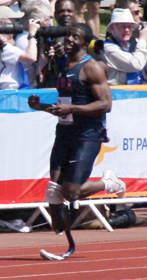 BT Paralympic World Cup 2009 Athletics. Jerome Singleton.